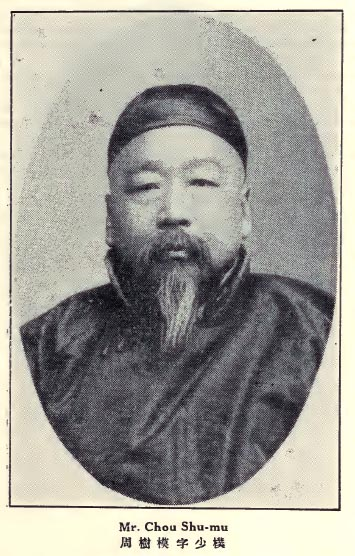 Zhou Shumo, politician of the late Qing Dynasty and the Republic of CHina.